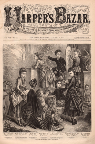 cover of Harper's Bazar magazine, USA